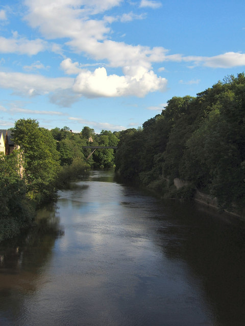 Durham, Kingsgate Bridge View of Kingsgate Bridge and the River Wear, Durham, taken from Elvet Bridge